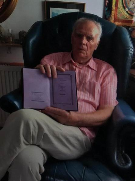 Leonid Latynin with the book “The Face-maker and the Muse” in his hands (L.Latynin, Yur.Khanon: “Two The Face-makers”). Edition: Center for Middle Music, 2014